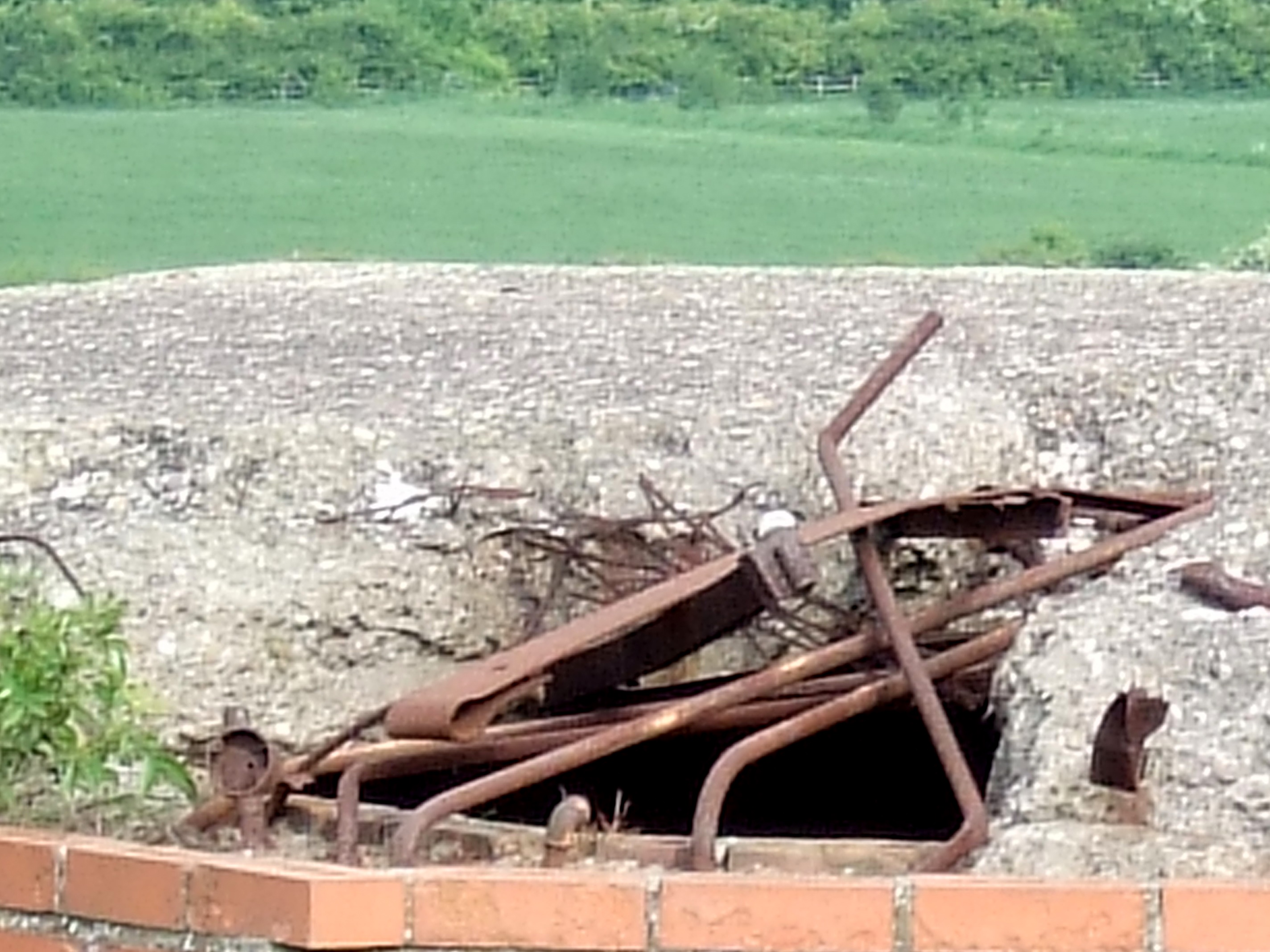 Closeup of odd bits of ironwork used during construction, including old bedstead & electrical conduit.Pillbox - Gotham - Type FW3/22 The pillbox is notable for the evidence of use of scrap metal in its construction. The damage to the Gotham Pillbox was caused post war and not due to enemy action.